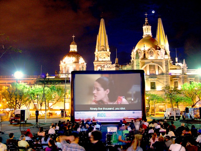 Panamanian movie being screened at the Guadalajara International Film Festival using an inflatable screen